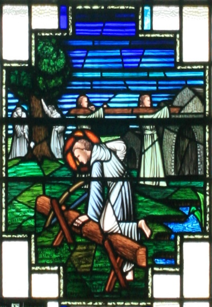 Clonard, County Meath, Ireland Detail of the fifth stained glass window in a series depicting the life of St. Finian in the Church of St. Finian at Clonard. The windows were created by Hogan in 1957. The inscription reads: Saint Finian and followers building Clonard. This image has been cropped from this image.